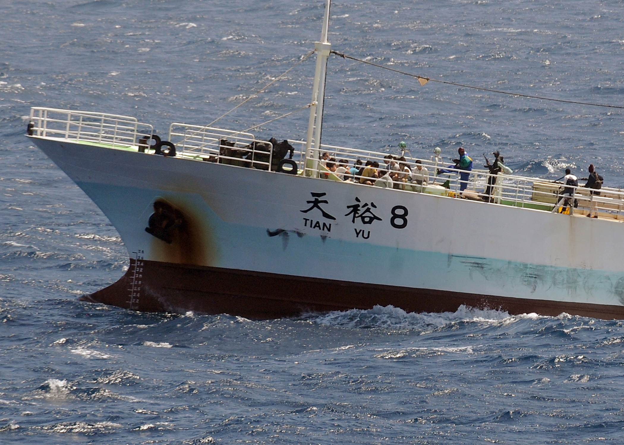 081117-N-1082Z-040 INDIAN OCEAN (Nov. 17, 2008) Pirates holding the crew of the Chinese fishing vessel FV Tianyu 8 guard the crew Monday, Nov. 17, 2008 as the ship passes through the Indian Ocean. The ship was attacked Nov. 16 in the U.S. 5th Fleet area of responsibility and forced to proceed to an anchorage off the Somali coast. IMO Number: 9176280 MMSI Number: 412470530 Callsign: BXYQ Length: 72 m Beam: 12 m